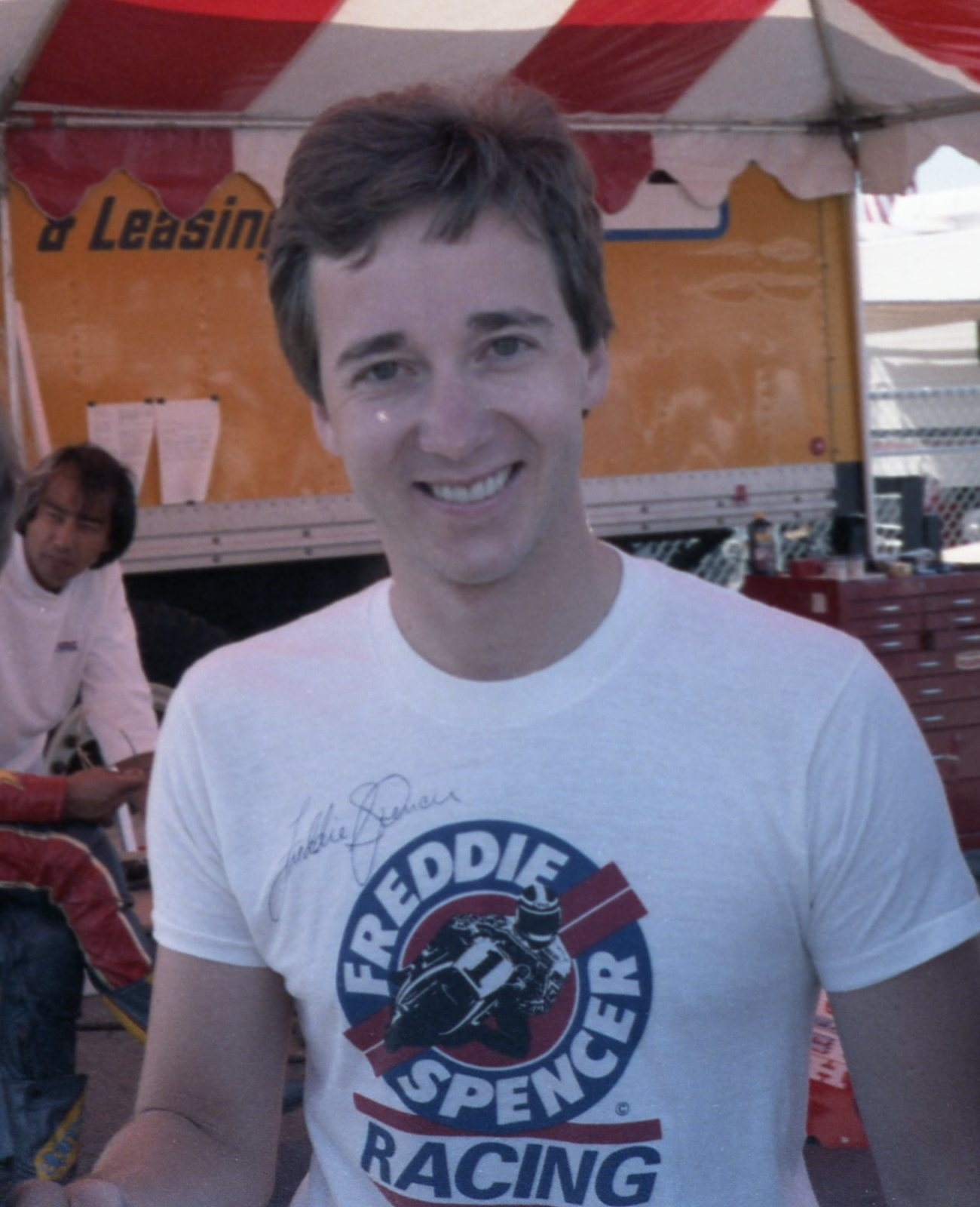 American motorcycle racer Frederick Burdette "Freddie" Spencer at 1985 Champion Spark Plug 200 at Laguna Seca Raceway.